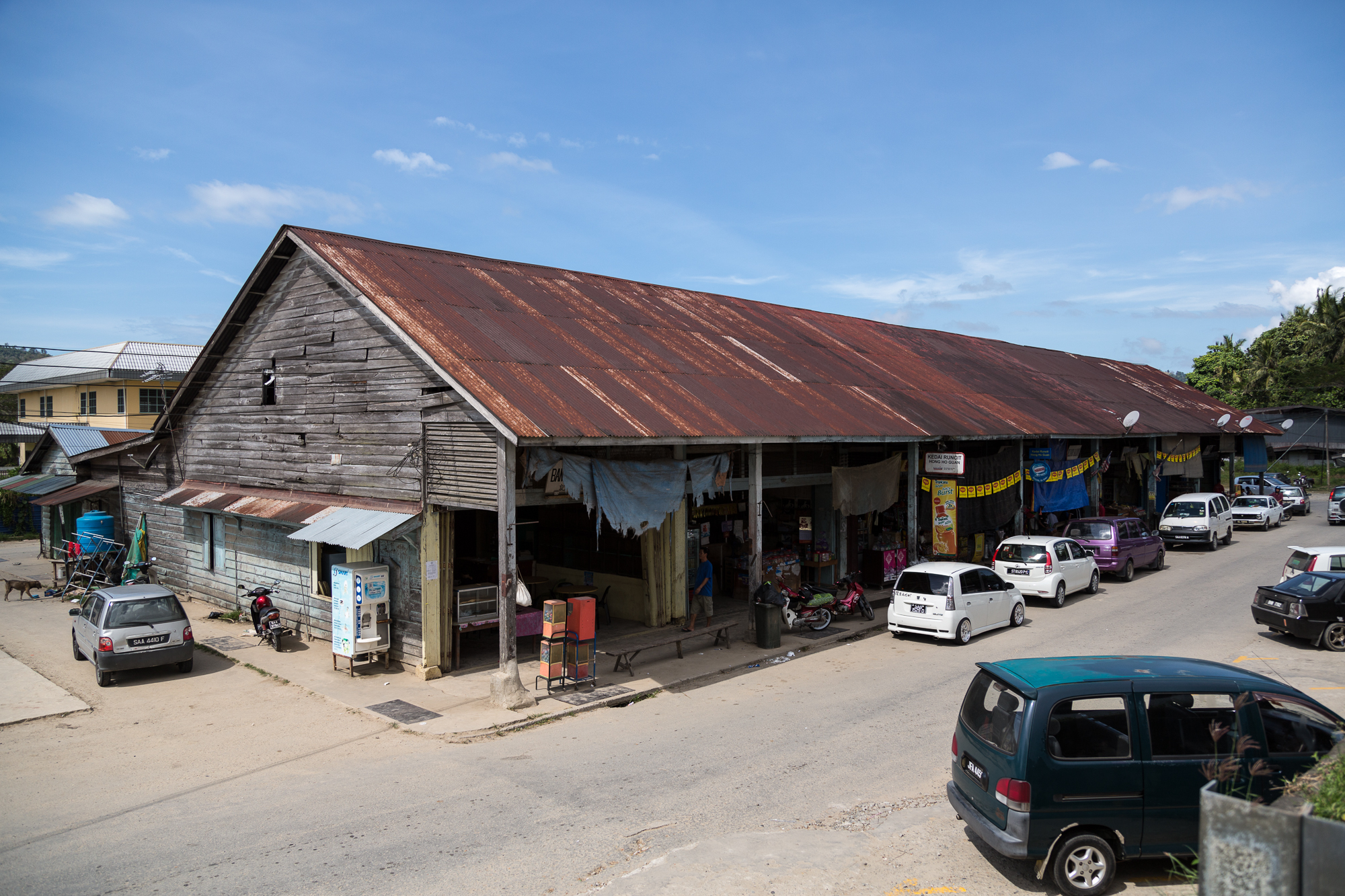 Tenghilan, Sabah: Old shoplot